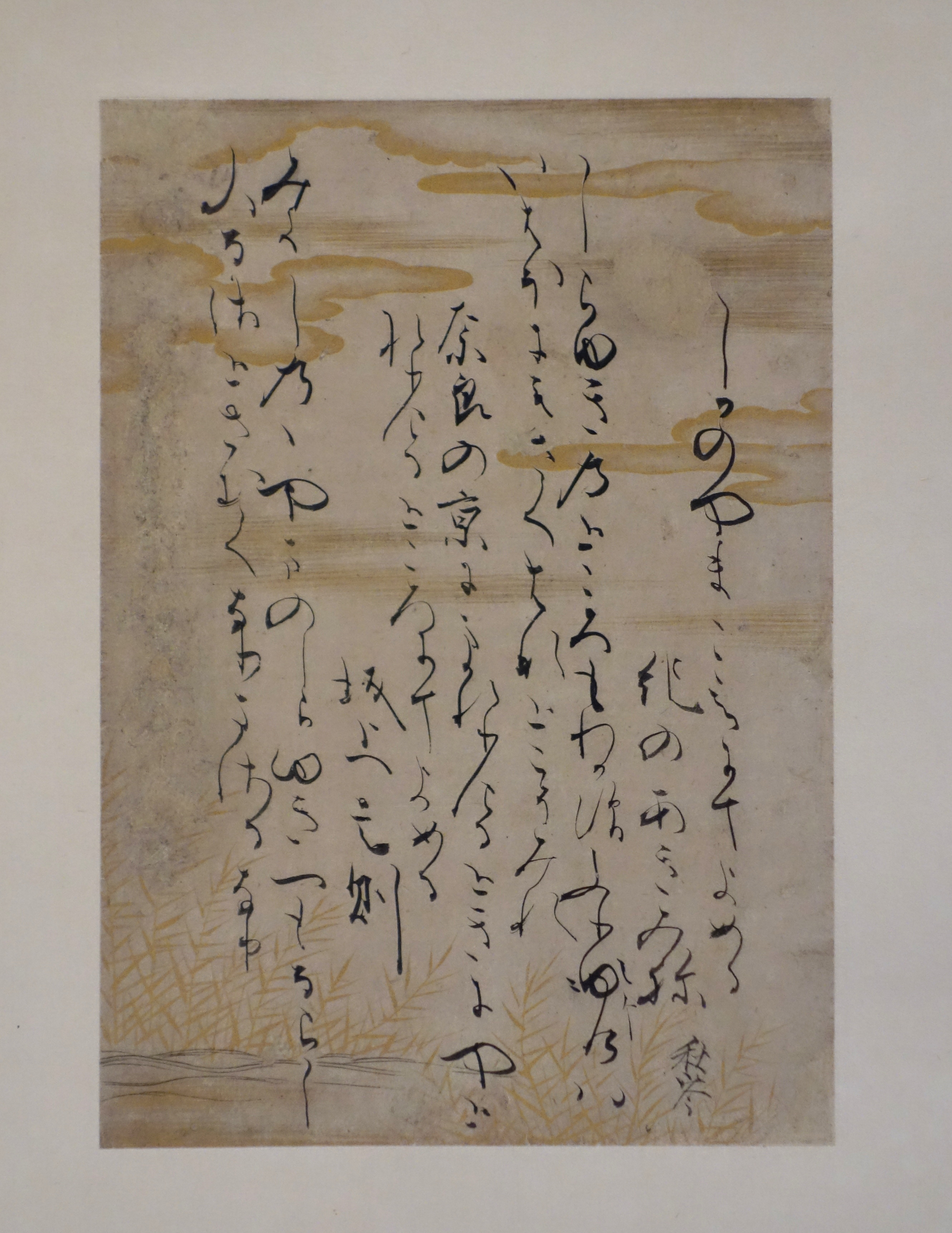 Exhibit in the Tokyo National Museum, Tokyo, Japan. This artwork is old enough so that it is in the public domain.